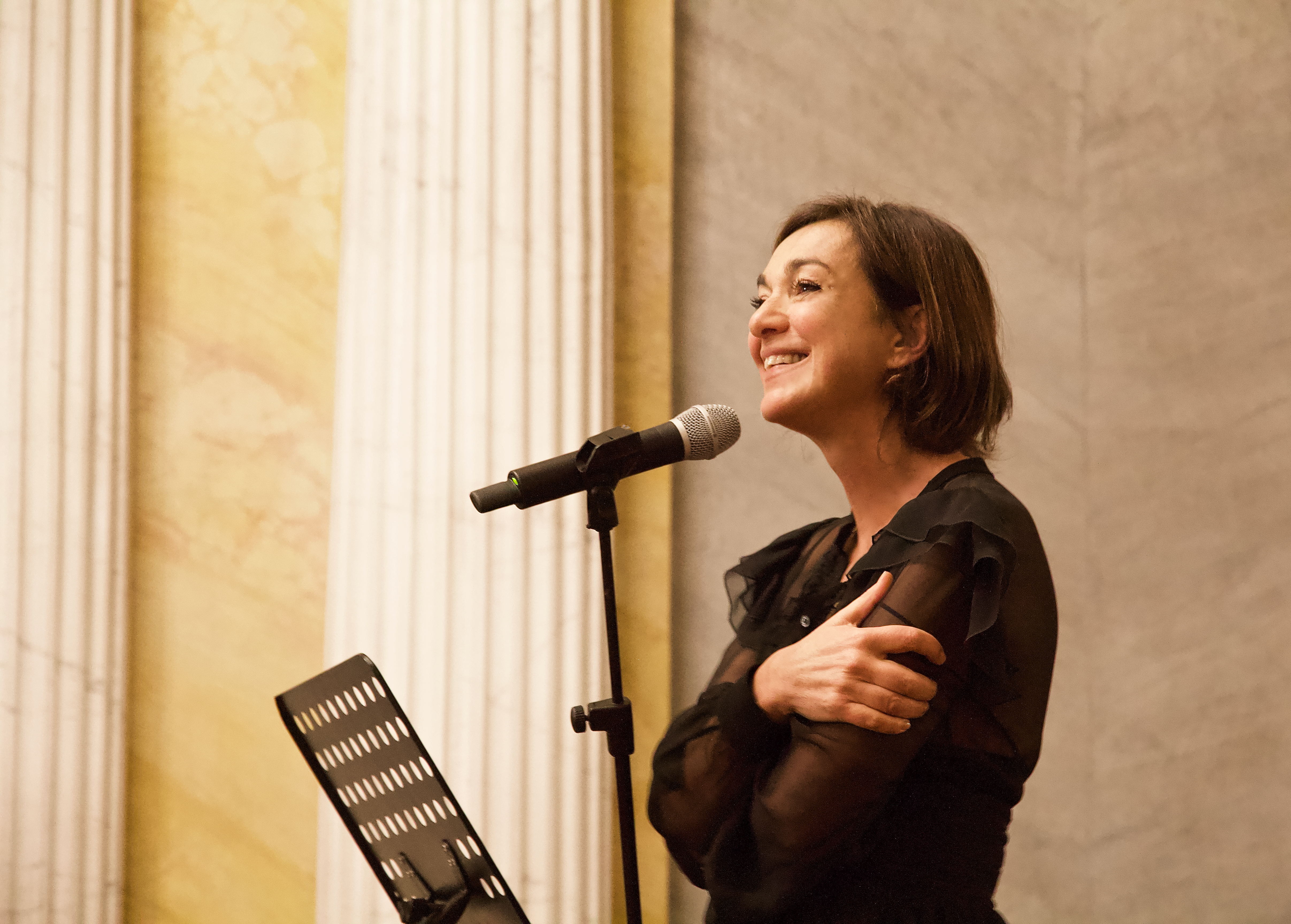 Daria Bignardi at Bookcity Milano 2018